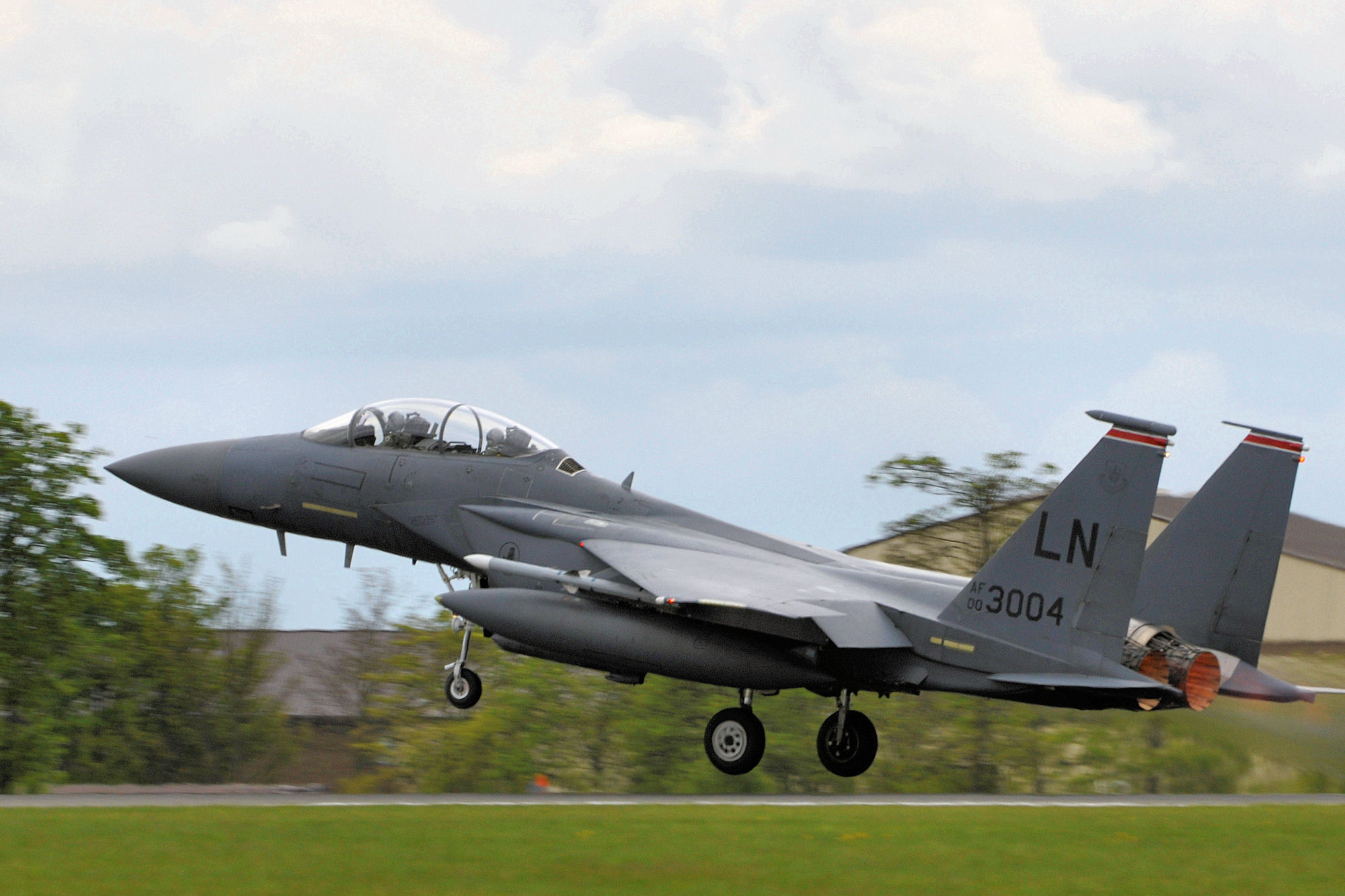 An F-15 Eagle from the 48th Fighter Wing takes off from RAF Mildenhall, England, April 11, 2010. The F-15, its crew chief, support personnel and equipment will be operating out of the base for the next month so its home runway at RAF Lakenheath can be repaired. (U.S. Air Force photo by Tech. Sgt. Nathan Gallahan)